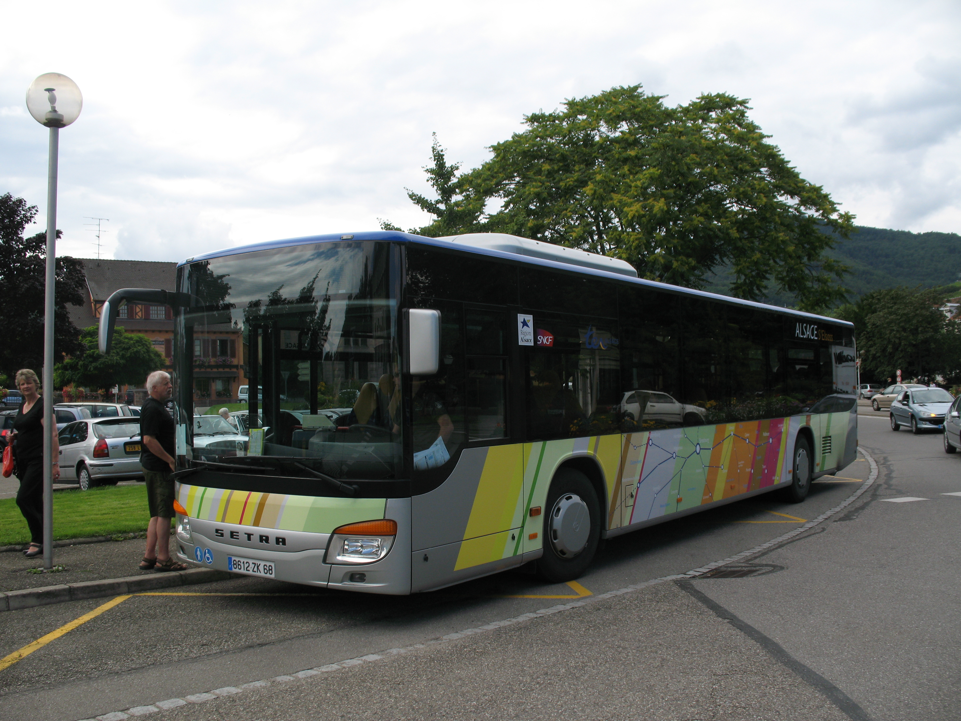 TER Alsace Setra S 416 NF bus at Ribeauvillé stop.